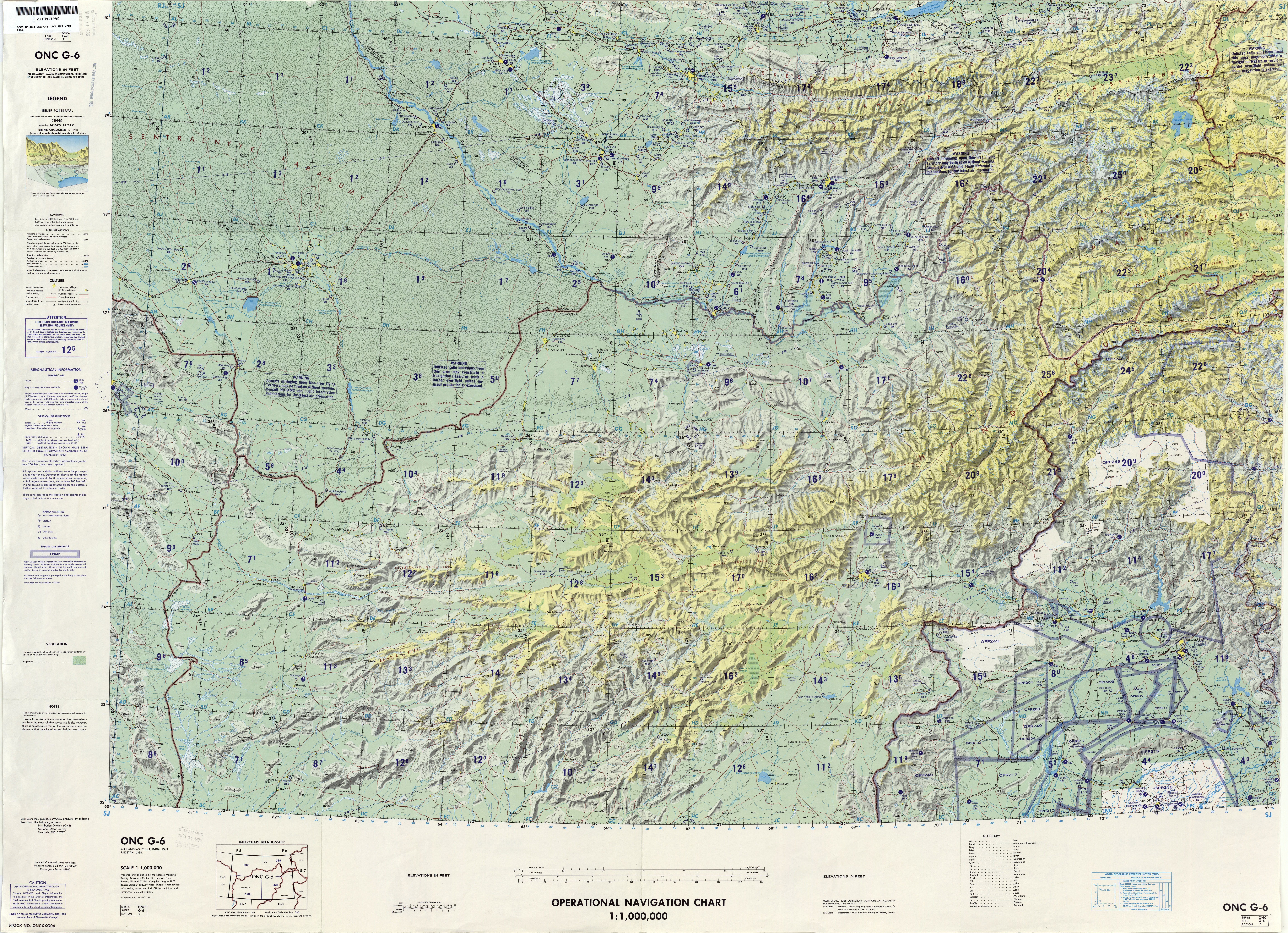 1:1,000,000 scale Operational Navigation Chart, Sheet G-6, 7th edition. Covers Afghanistan, China, India, Iran, Pakistan, U.S.S.R. Lambert Conformal Conic Projection.